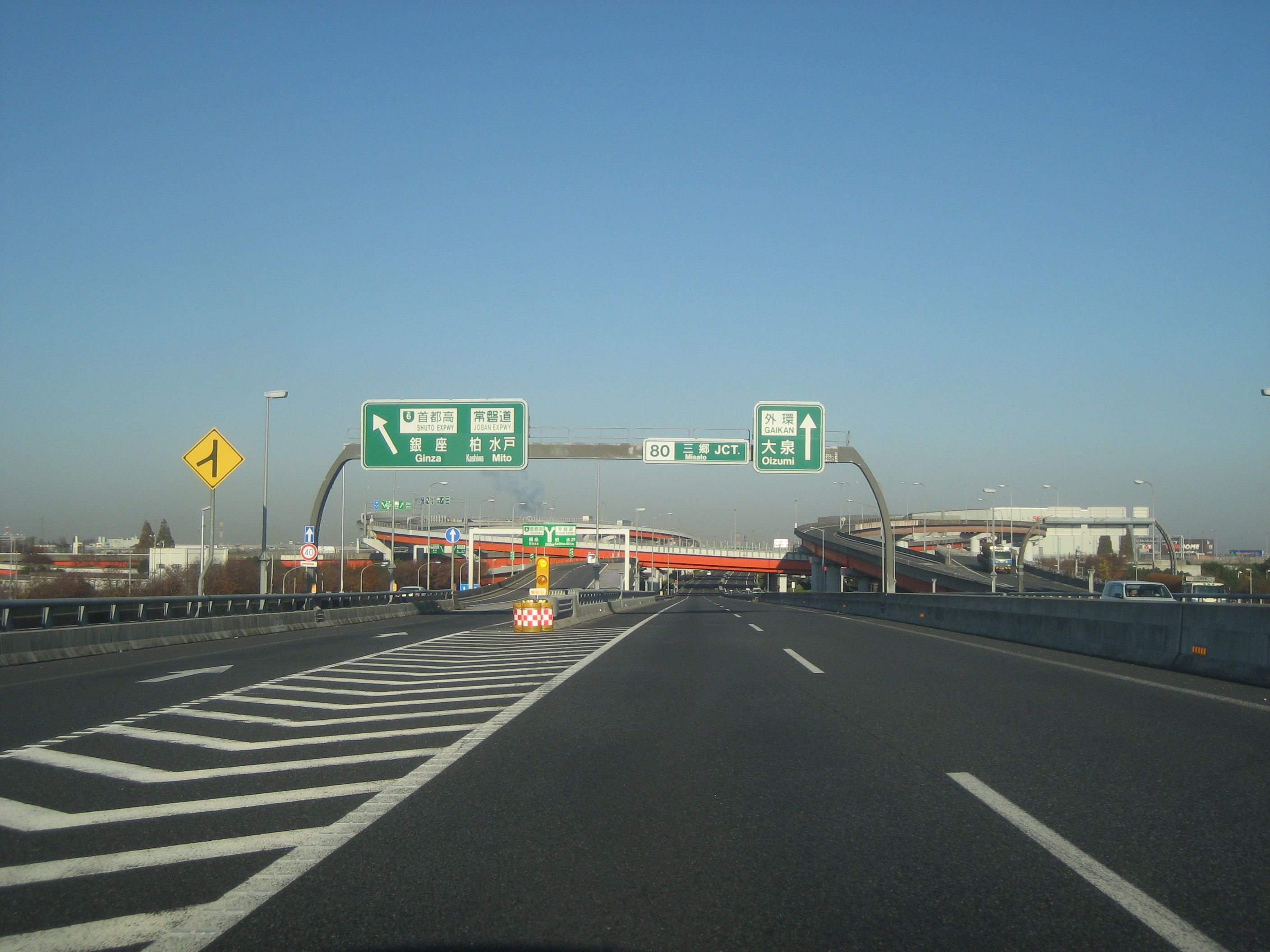 Misato Junction on the Tokyo Gaikan Expressway for Oizumi